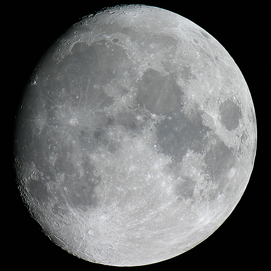 This is a stack of 10 frames taken through a 150mm Maksutov-Cassegrain telescope. Author: User:Mdf Source: Image:Moon-001.jpg 22:36, 14 July 2005 . . Mdf (